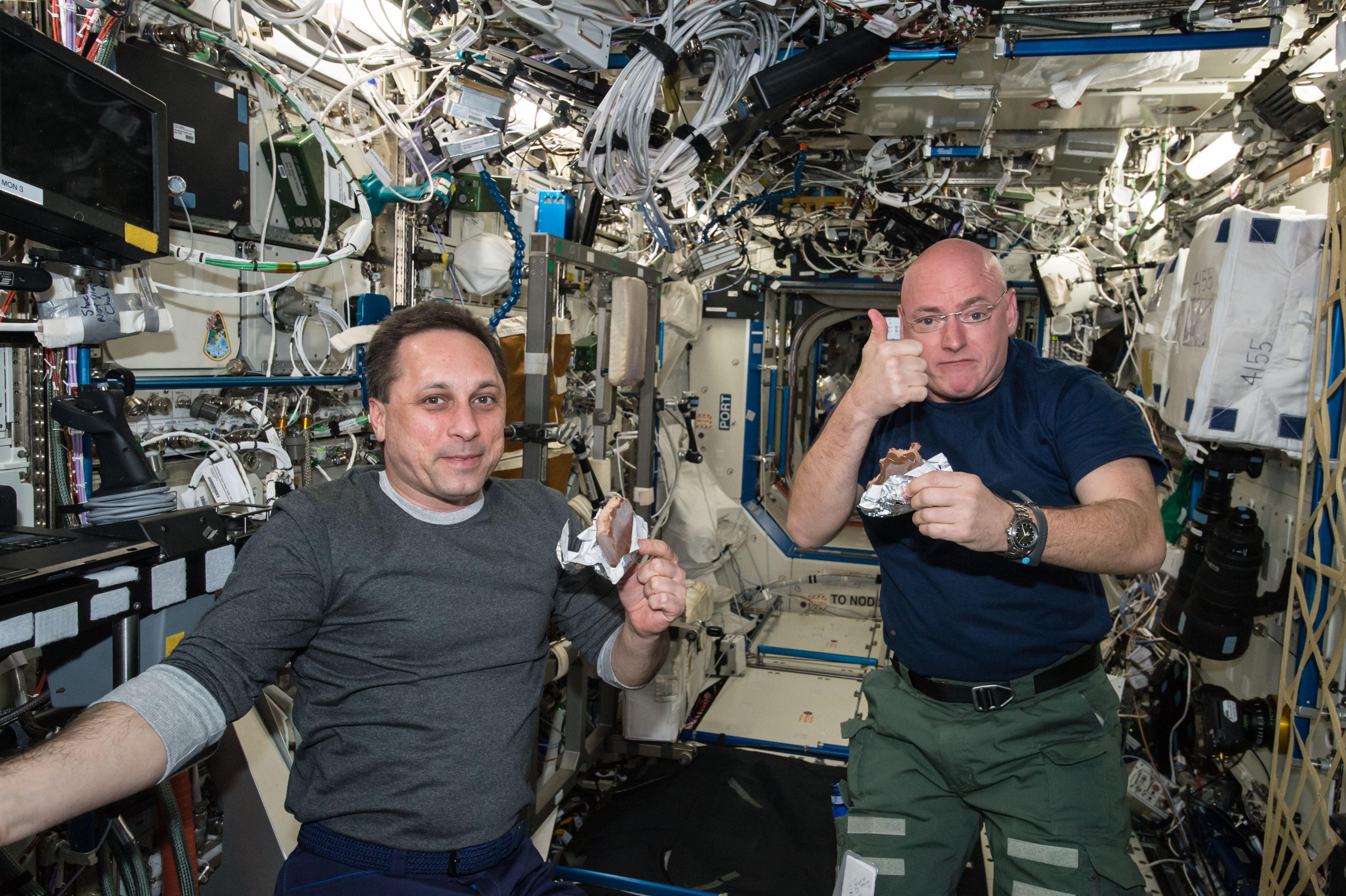 NASA astronaut Scott Kelly gives the "thumbs up" sign on the quality of his snack while taking a break from his work schedule aboard the International Space Station on Apr. 20, 2015. Russian cosmonaut Mikhail Kornienko Anton Shkaplerov (ROSCOSMOS) seems to agree on the tasty factor of the specially prepared space food.